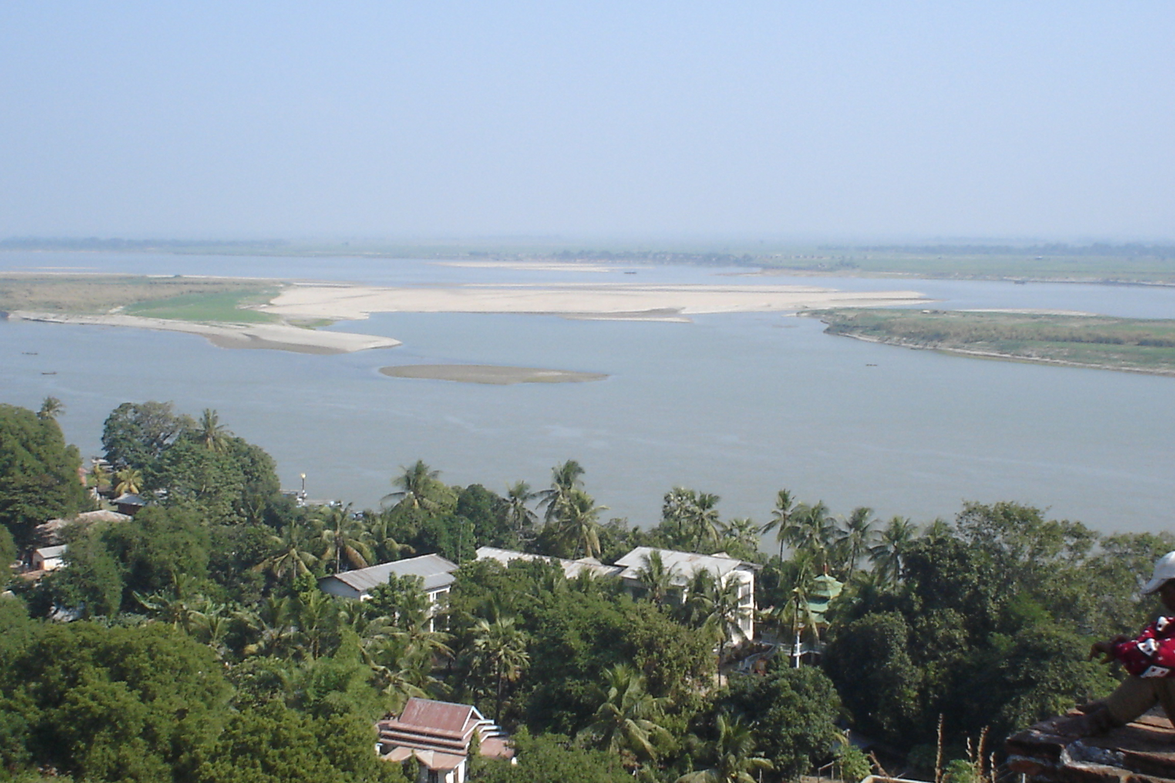 Irrawaddy river from the top of Mingun tower, North of Mandalay